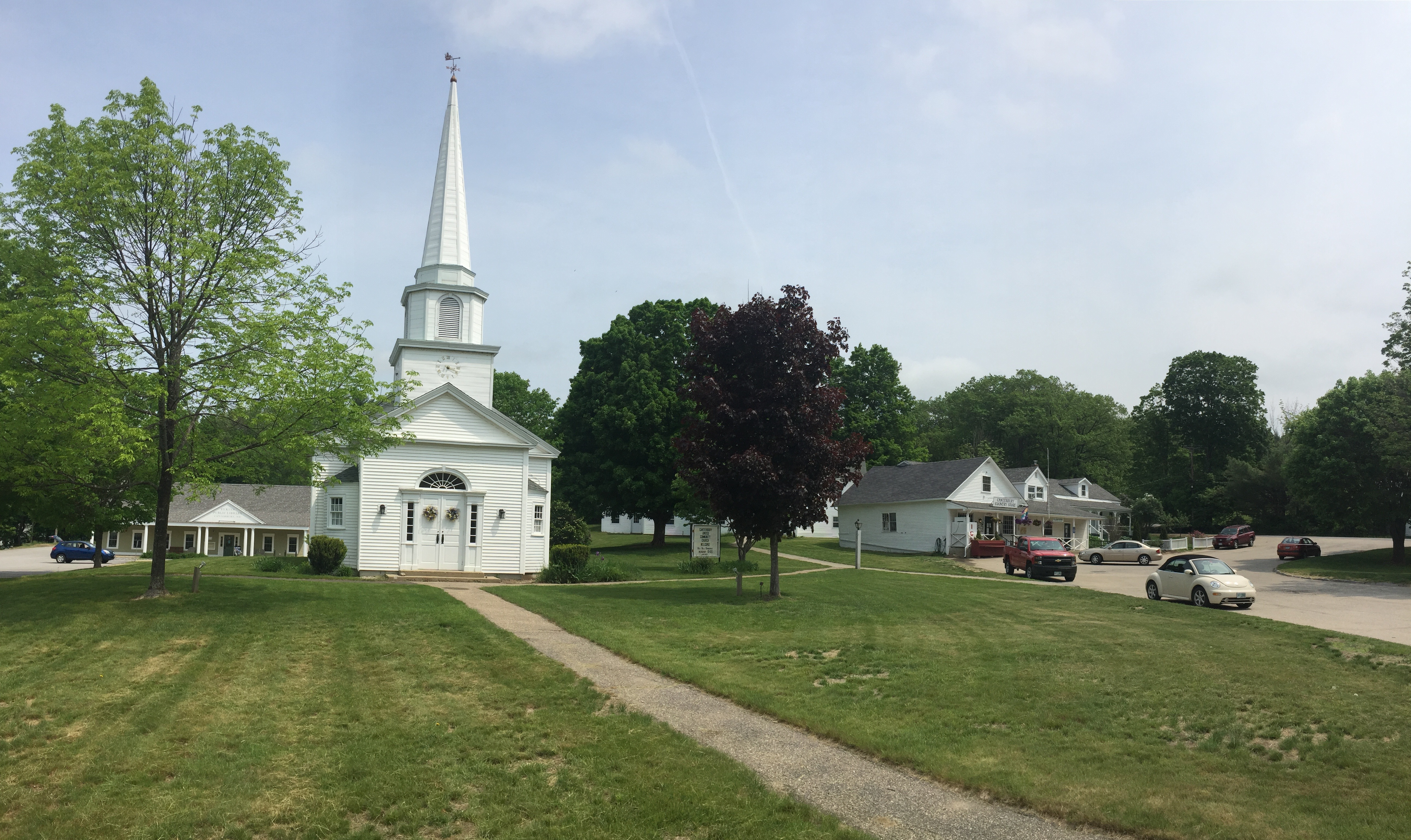 Town center, Canterbury, New Hampshire, May 2016